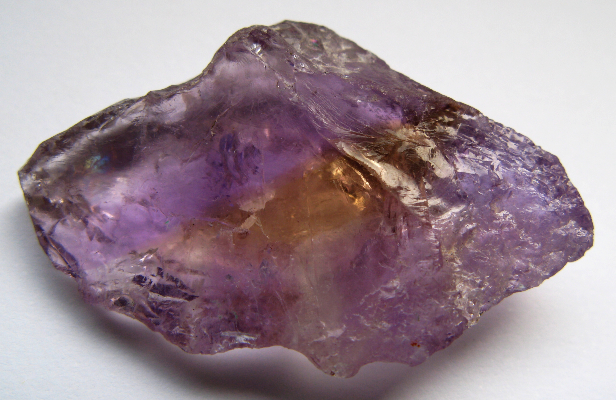 Ametrine, varity of quartz, comprising Amethyst und Citrine from Bolivia